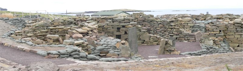 The archeological site of Old Scatness, Shetland, Scotland